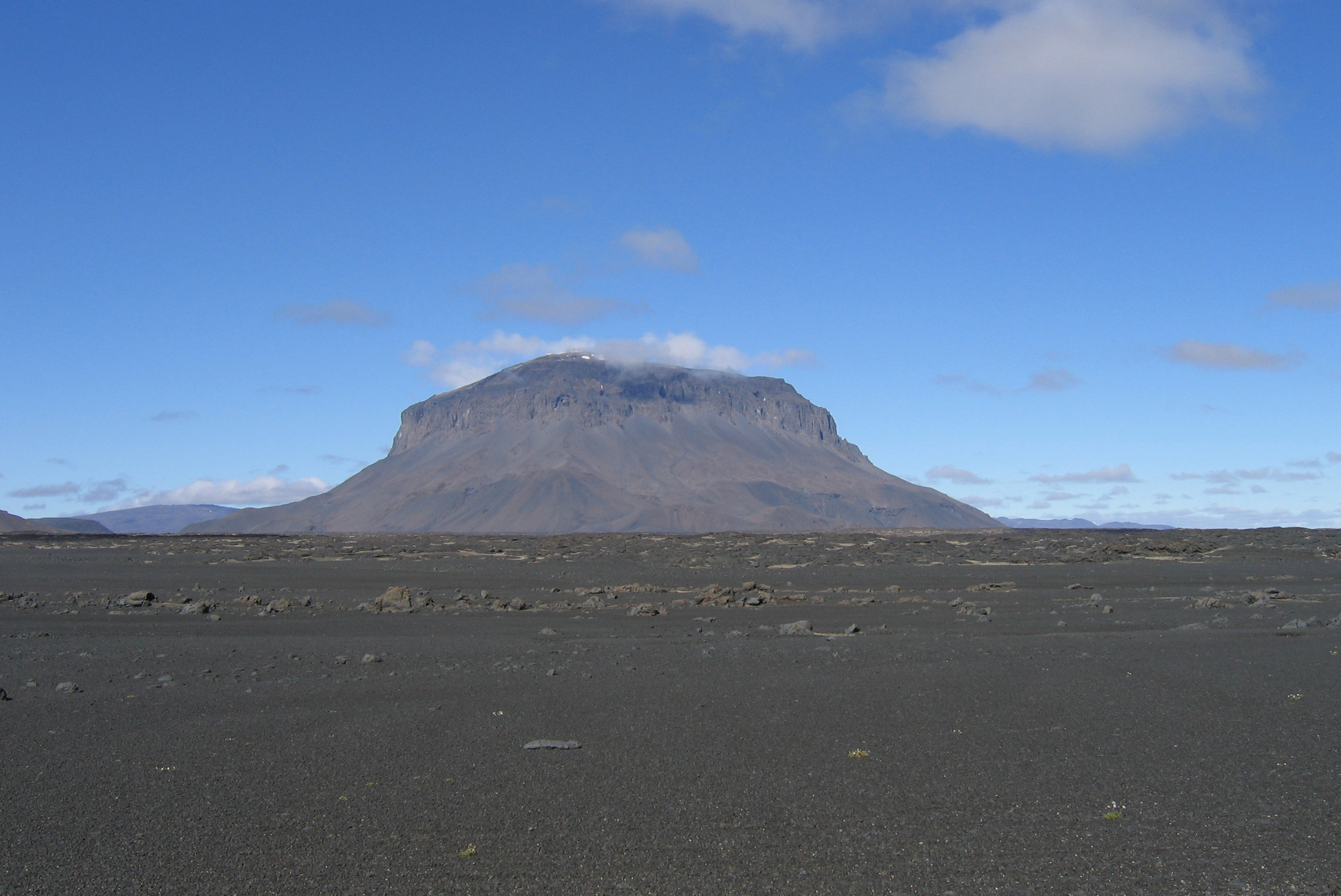 The mountain Herðubreið, interior of Iceland, viewed from the southeast.